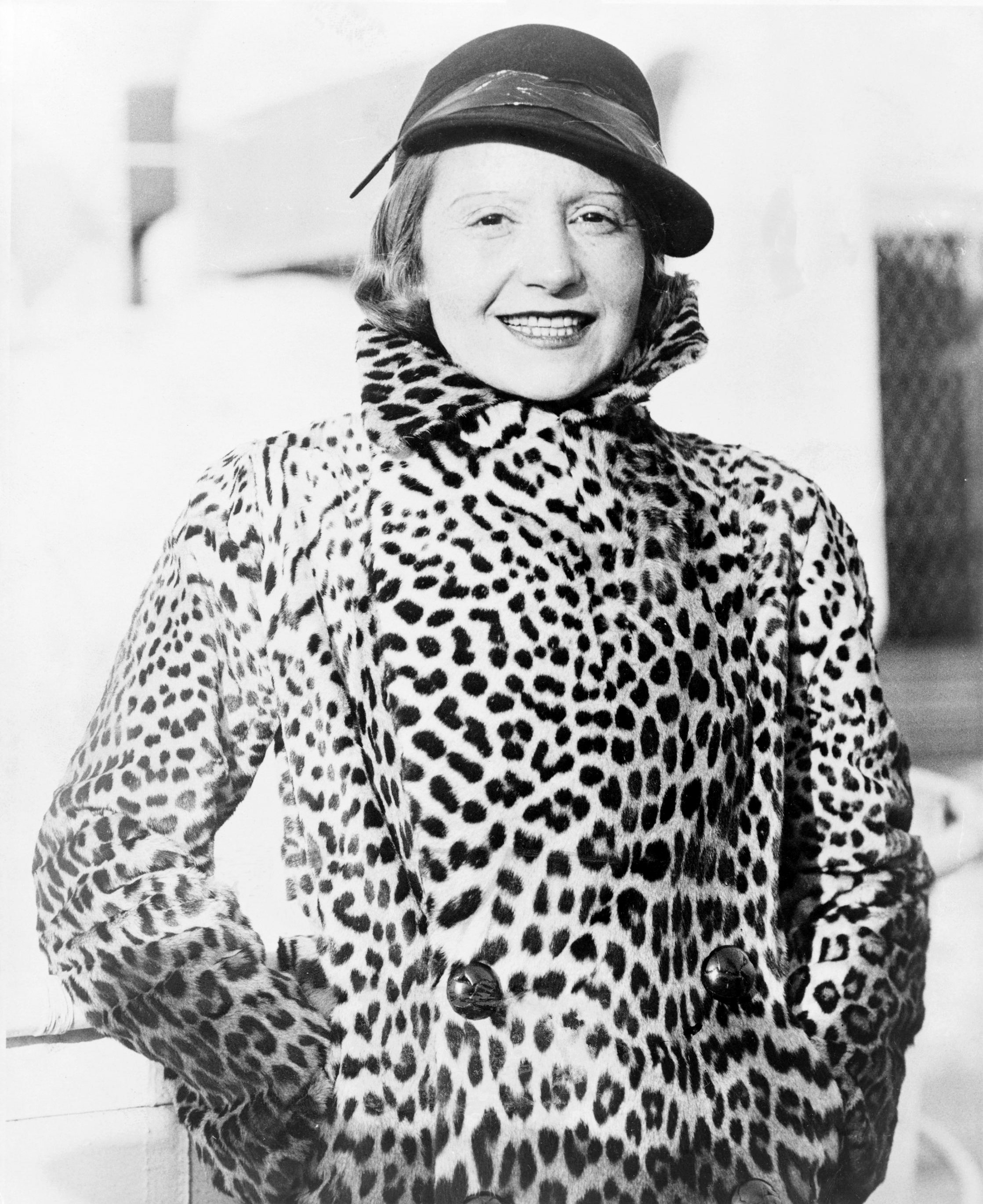 Elisabeth Bergner was born Elisabeth Ettel on August 22 1897, in Drohobycz, Austro-Hungarian Empire (now Drogobych, Ukraine).